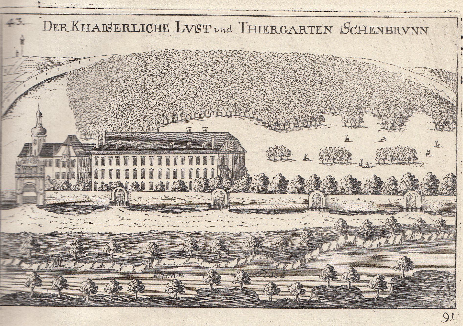 Copperplate engraving from "Topographia archiducatus Austriae Inferioris modernae 1672" by Georg Matthäus Vischer. Picture shows Katterburg (erected as a mansion in c. 1550) and Gonzaga palais which was commissioned by Eleonora Gonzaga and built in 1638-43. Both buildings were ruined by the Turks in 1683 and were replaced by Schönbrunn Palace, beginning in 1689.